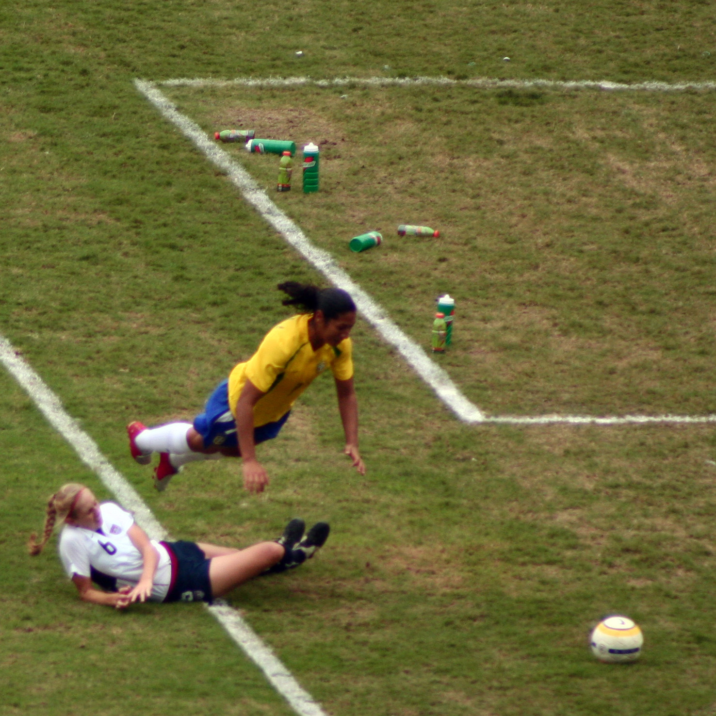 Rio de Janeiro, Brazil vs. USA - Final of the 2007 Pan American Games.